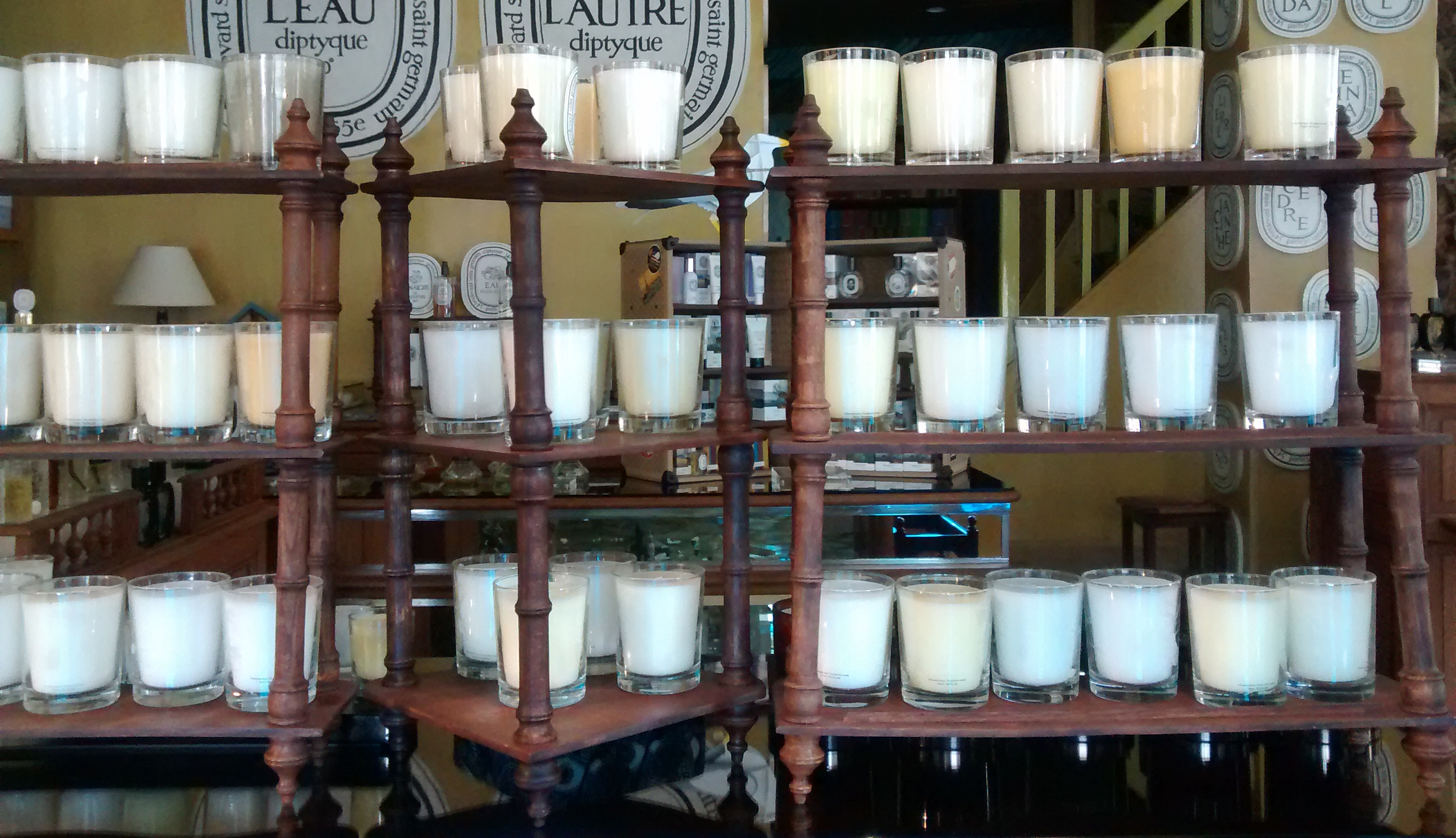 Candles on display at a Diptyque store in Paris.